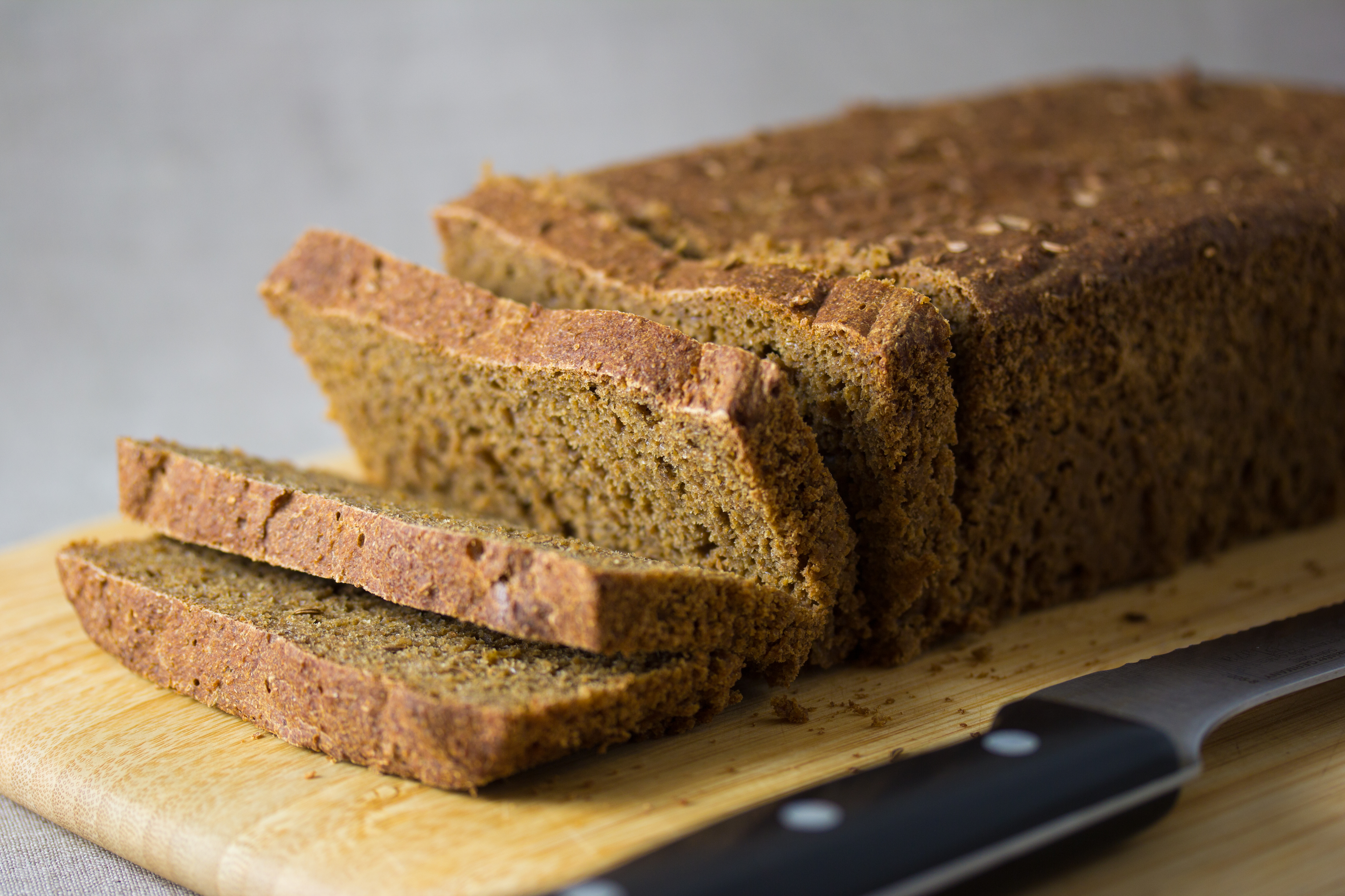 100% Rye Bread